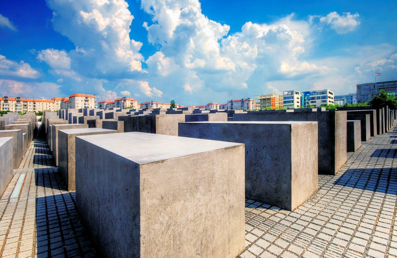 Memorial to the Murdered Jews of Europe in Berlin, Germany.